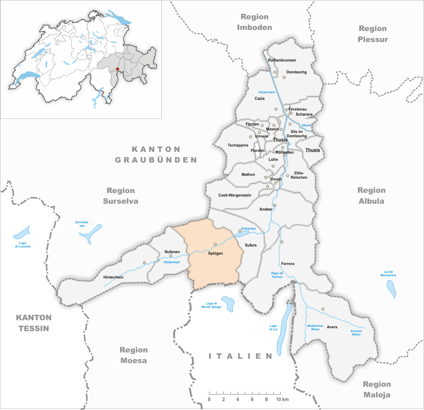 Municipality Splügen